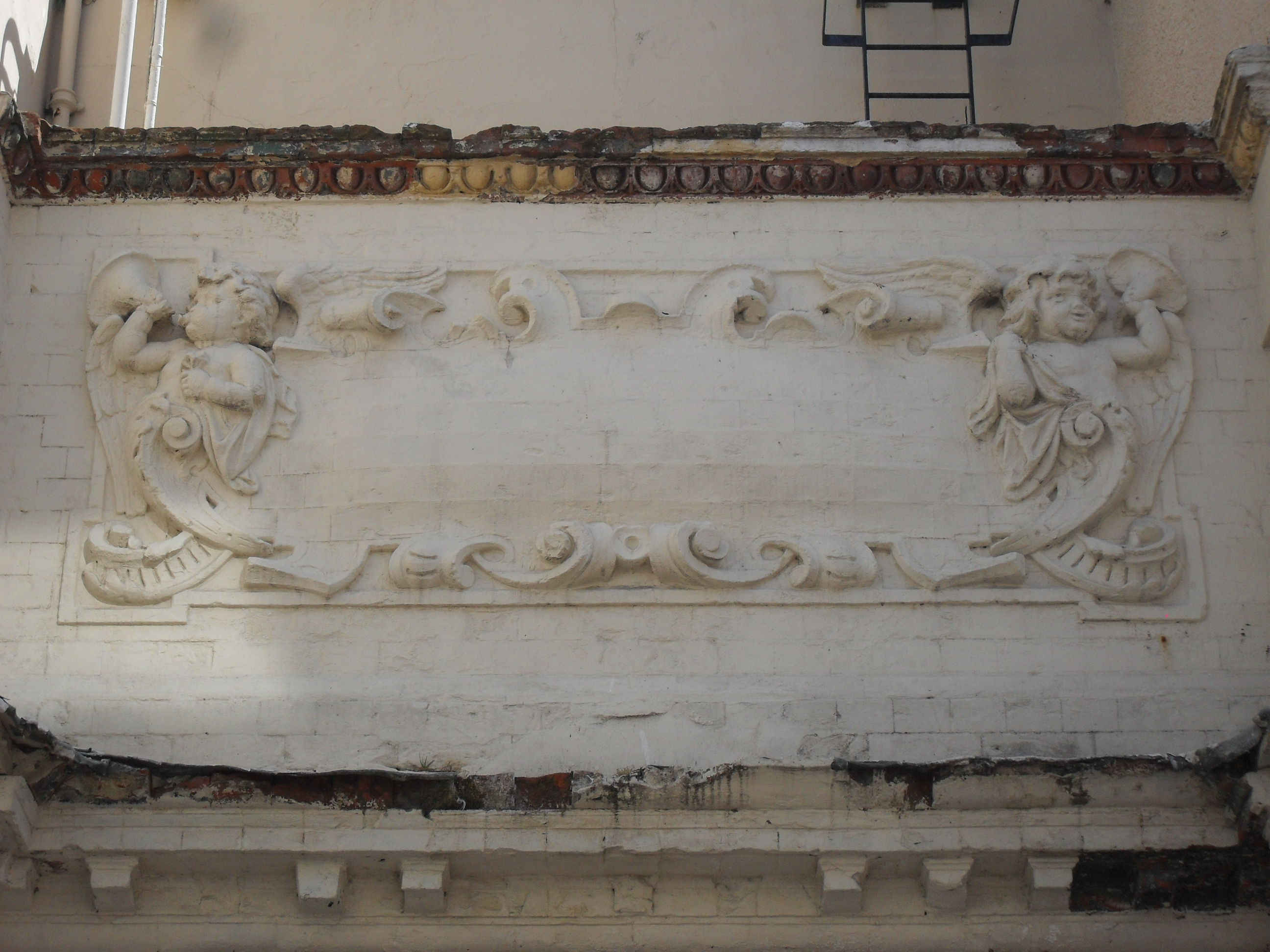 A cartouche with intricate scrollwork and putti (smiling cherubim), above a side entrance to the former Brighton Hippodrome—an 1897 entertainment venue in Brighton, England.